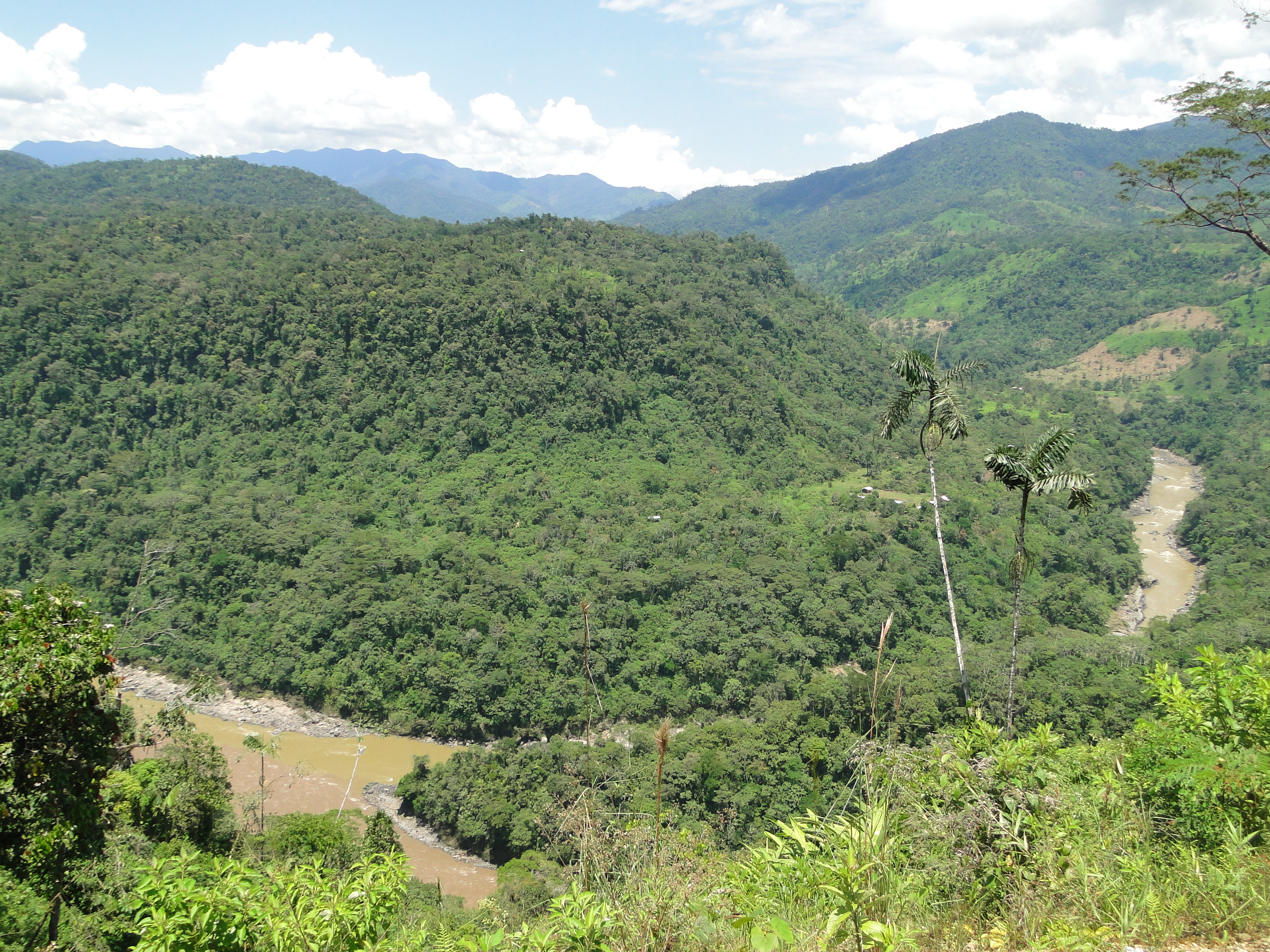 Confluence of the Namangoza River (left) with the Zamora River; and start of the Santiago River